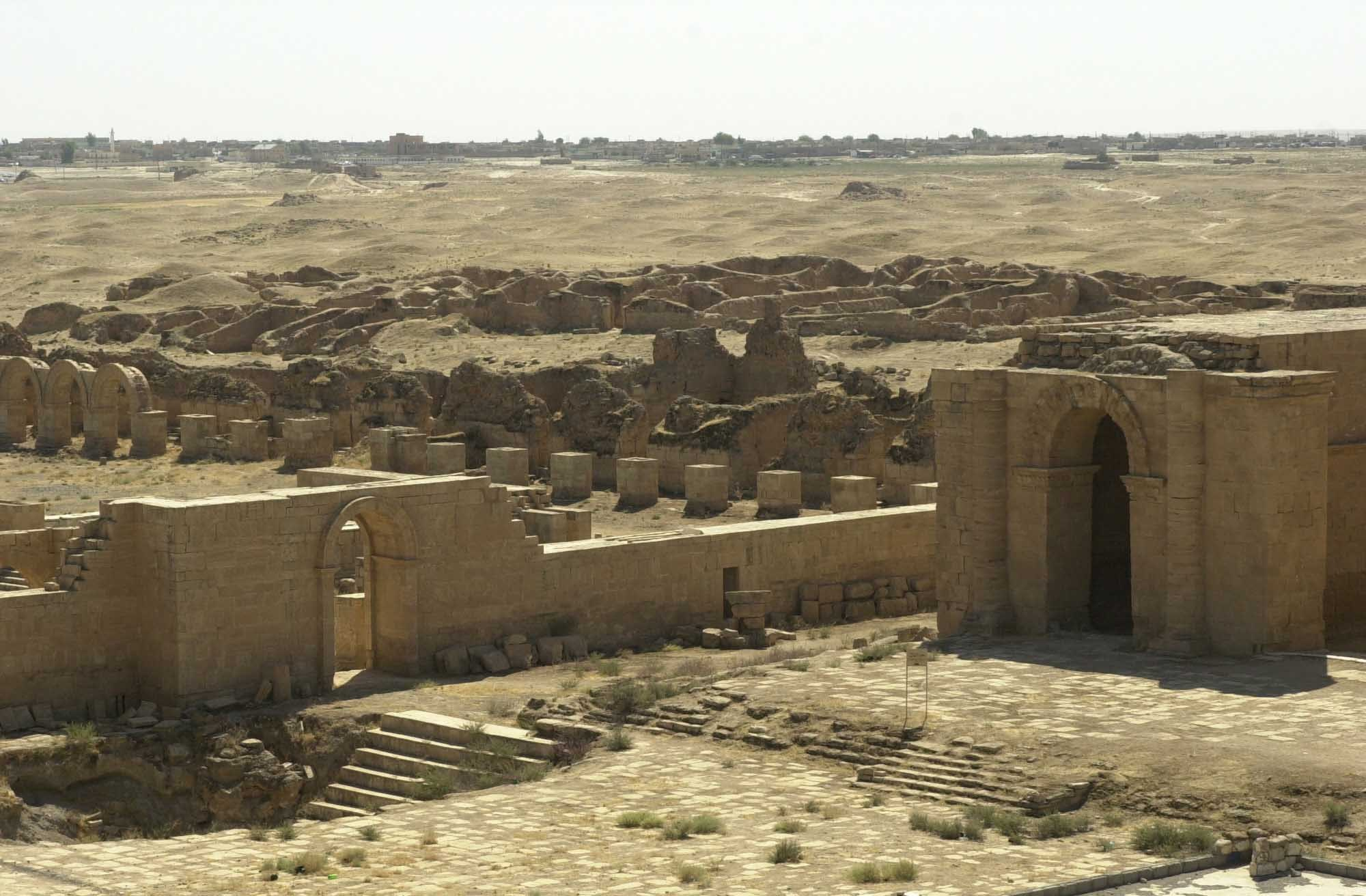 The remains of several temples and the ancient walls that surrounded them can be seen from atop the highest temple in the center of the ancient city of Hatra.